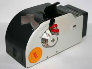 Postage meter